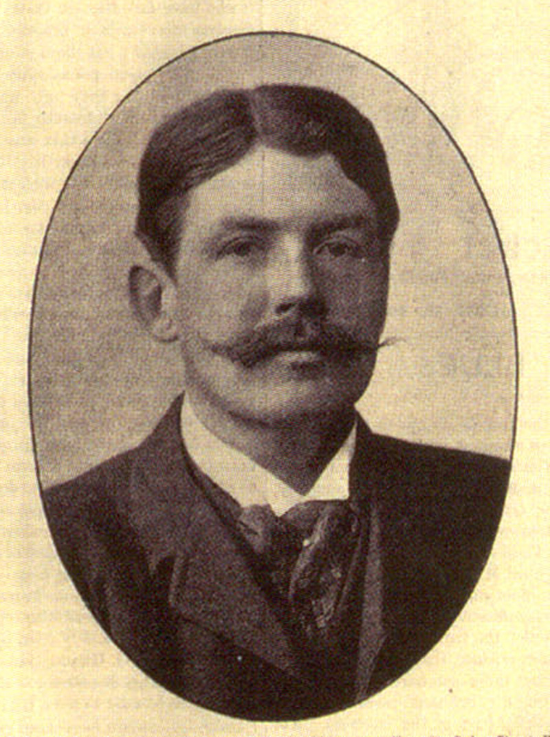 Ivo Bligh, captain of the English Cricket Team 1882-3. Later he was Lord Darnley, owner of Cobham Hall, Kent.